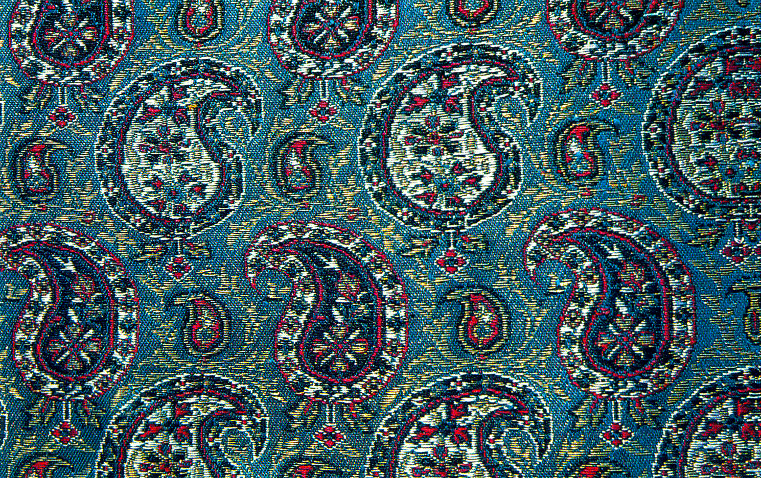 Persian Silk Brocade. Persian Textile (The Golden Yarns of Zari - Brocade). Silk Brocade with Golden and Silver Thread (Golabetoon). Texture Type: Lower Warp (Brocade Atlasi). Jacquard. Pattern and Design: Paisley Left and Right(Bote Jeghe), With Main Repeating Motif. (Persian Paisley) Brocade weaver: Master Seyyed Hossein Mozhgani. 1963 A.D. Brocade Designer (Pattern Designer): Master Reza Vafa Kashani. 1939 A.D. Pahlavi Dynasty. the Ministry of Culture and Art . Honarhaye Ziba workshop.